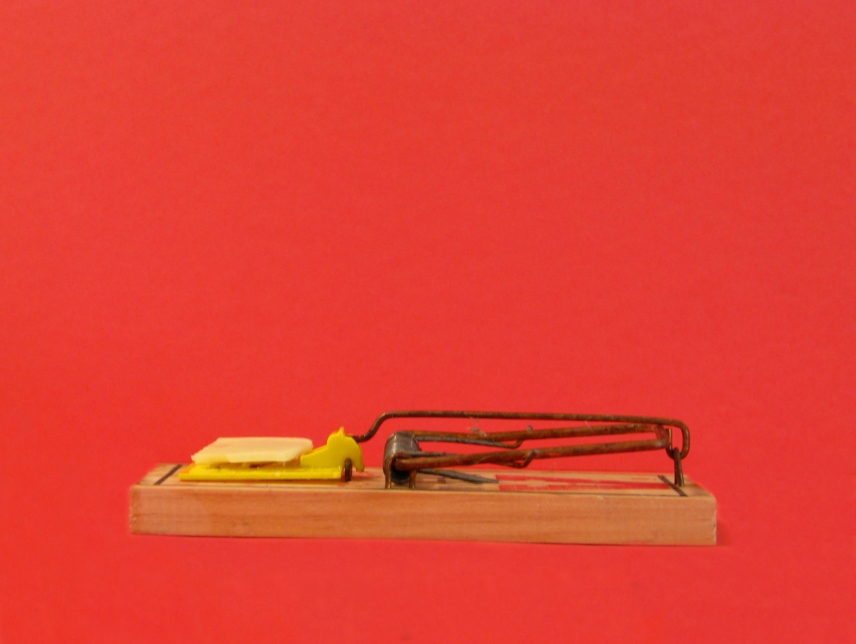 mousetrap, possibly a symbol for Food Addiction